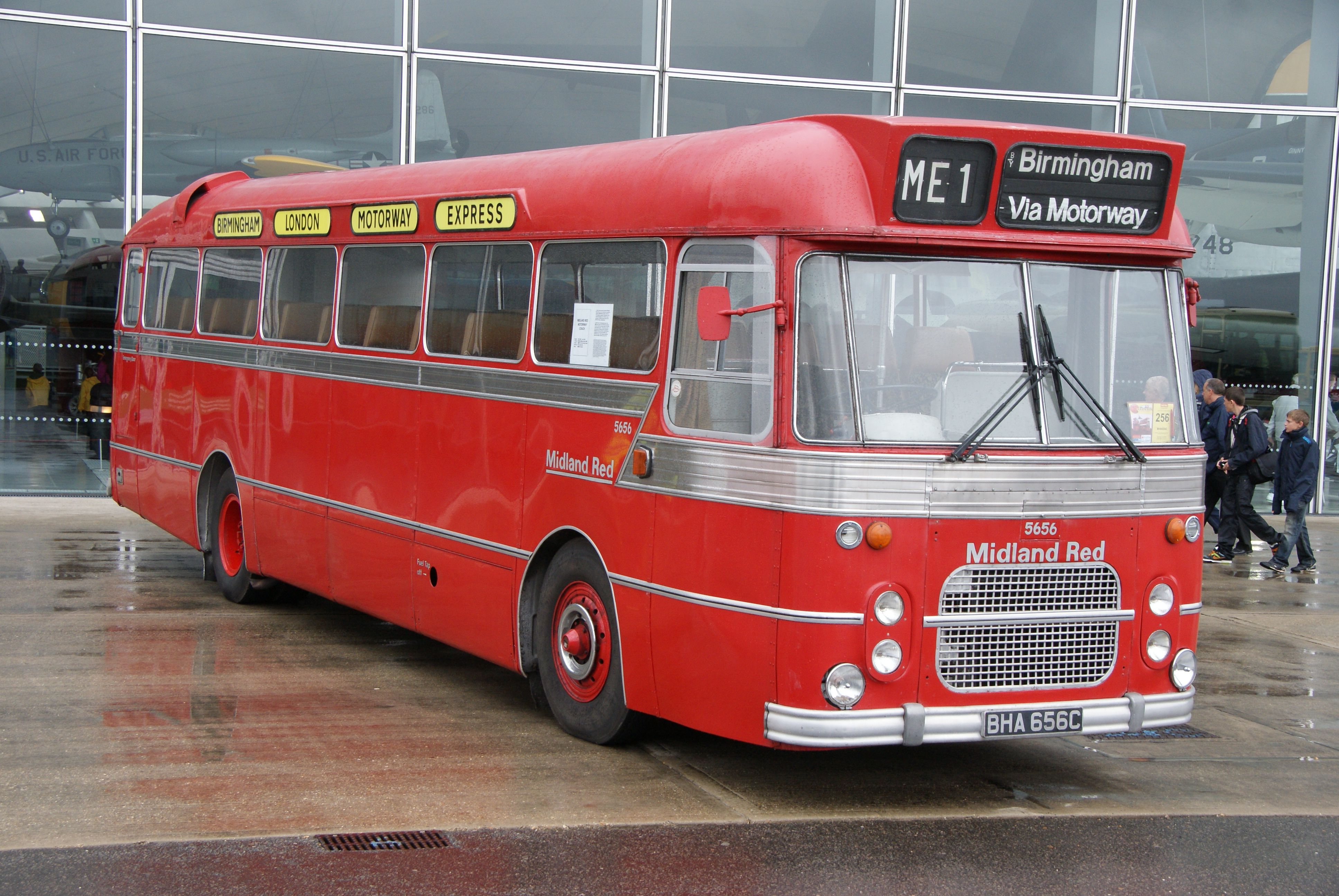 5656 260910 CPS